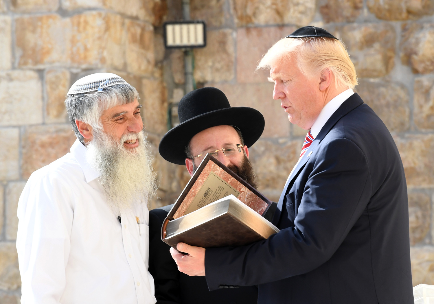 POTUS visit the Western Wall, accompanied by the Western Wall's rabbi, Shmuel Rabinovitch and Mordechai "Solly" Eliav, Director General of the Western Wall Heritage Foundation. Jerusalem, May 22, 2017.